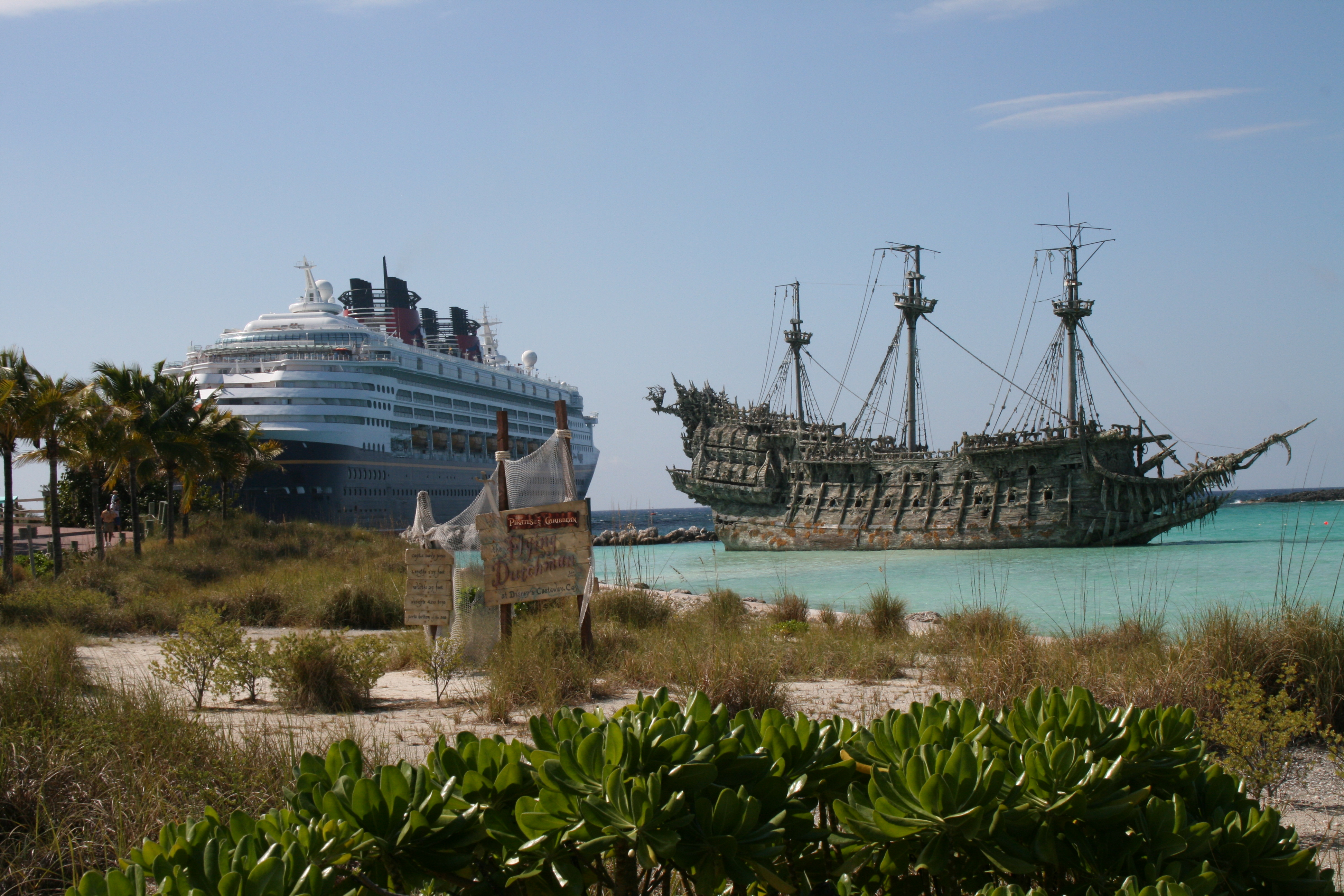 The Flying Dutchman prop from the Disney movies Pirates of the Caribbean Dead Man's Chest and At World's End, and to the left, the Disney Wonder. Information about Disney Wonder may be found at IMO 9126819. A ship can change her name and flag state through time, but the IMO number remains the same through the hull's entire lifetime. Therefore, it's useful to identify a ship through her IMO number.